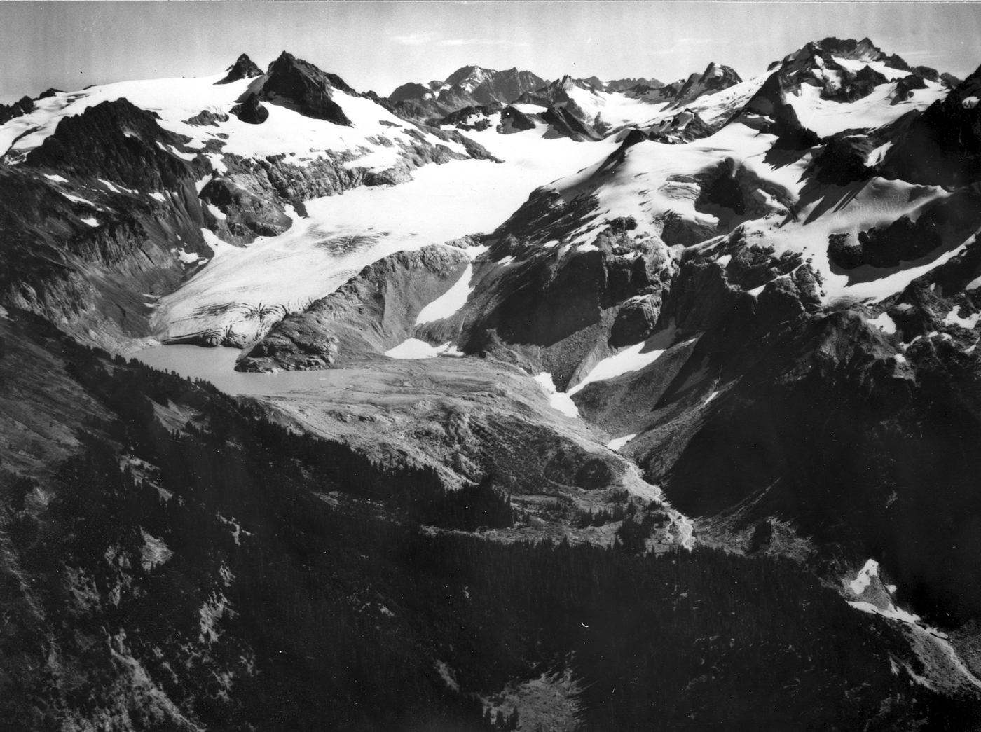 South Cascade Glacier, North Cascade Range. Taken September 23, 1965. Chelan and Skagit Counties, Washington. Published as plate 2-C in U. S. Geological Survey Professional paper 715-A, 1971.